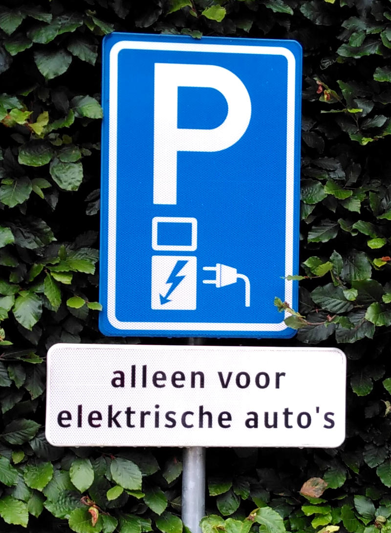 parking for charging electric cars only, De Bilt, Netehrlands